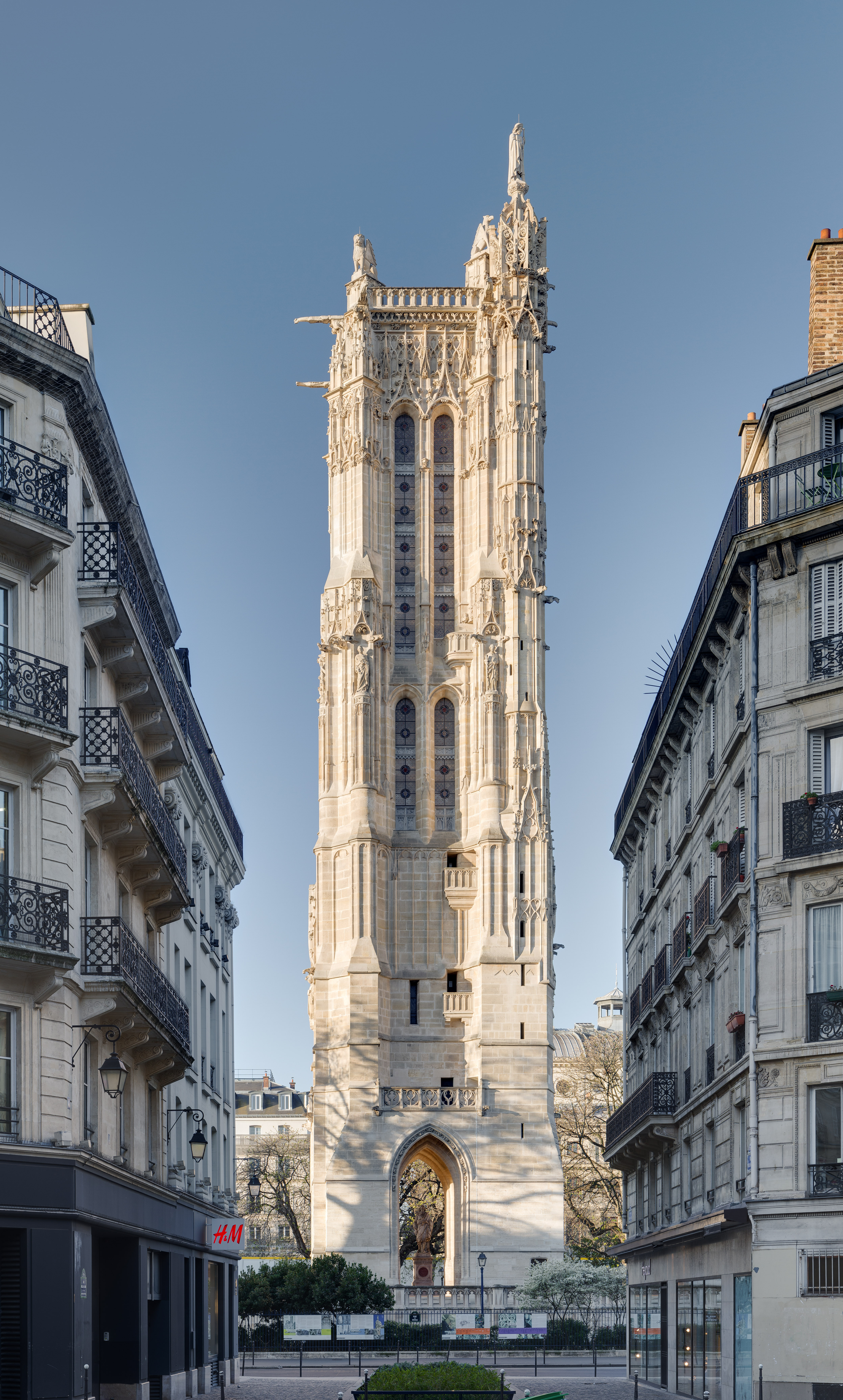 Saint-Jacques Tower at sunrise, seen from Nicolas Flamel street, in Paris, France.